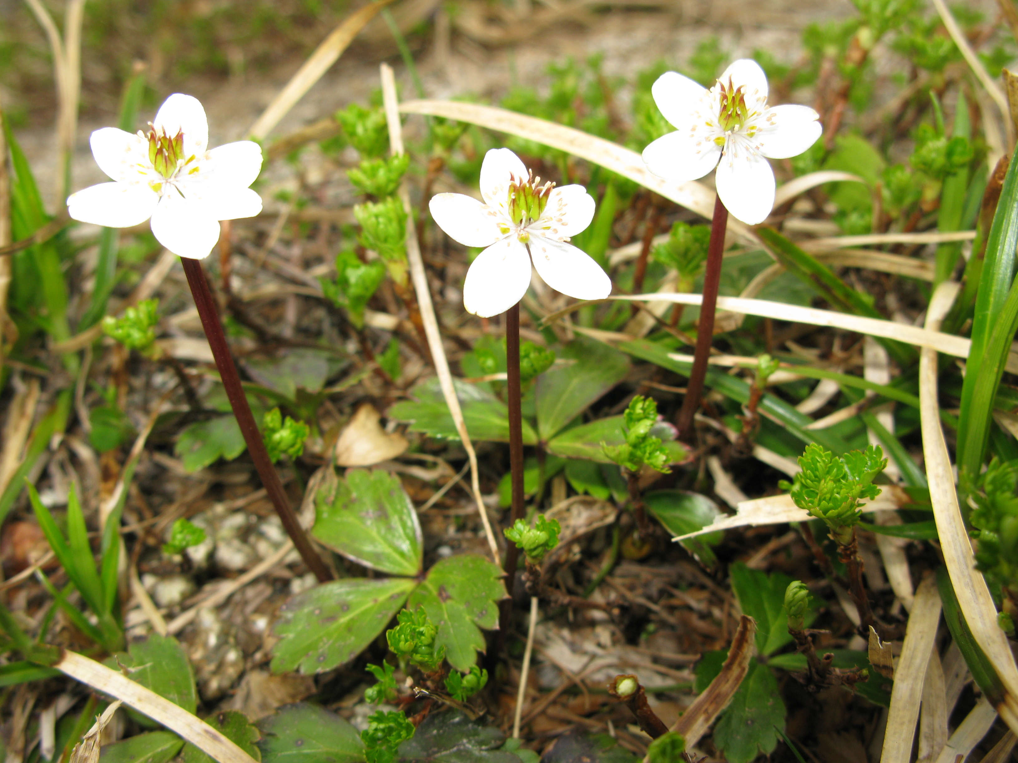 Coptis trifoliolata, Mount Iide, Nigata pref., Japan